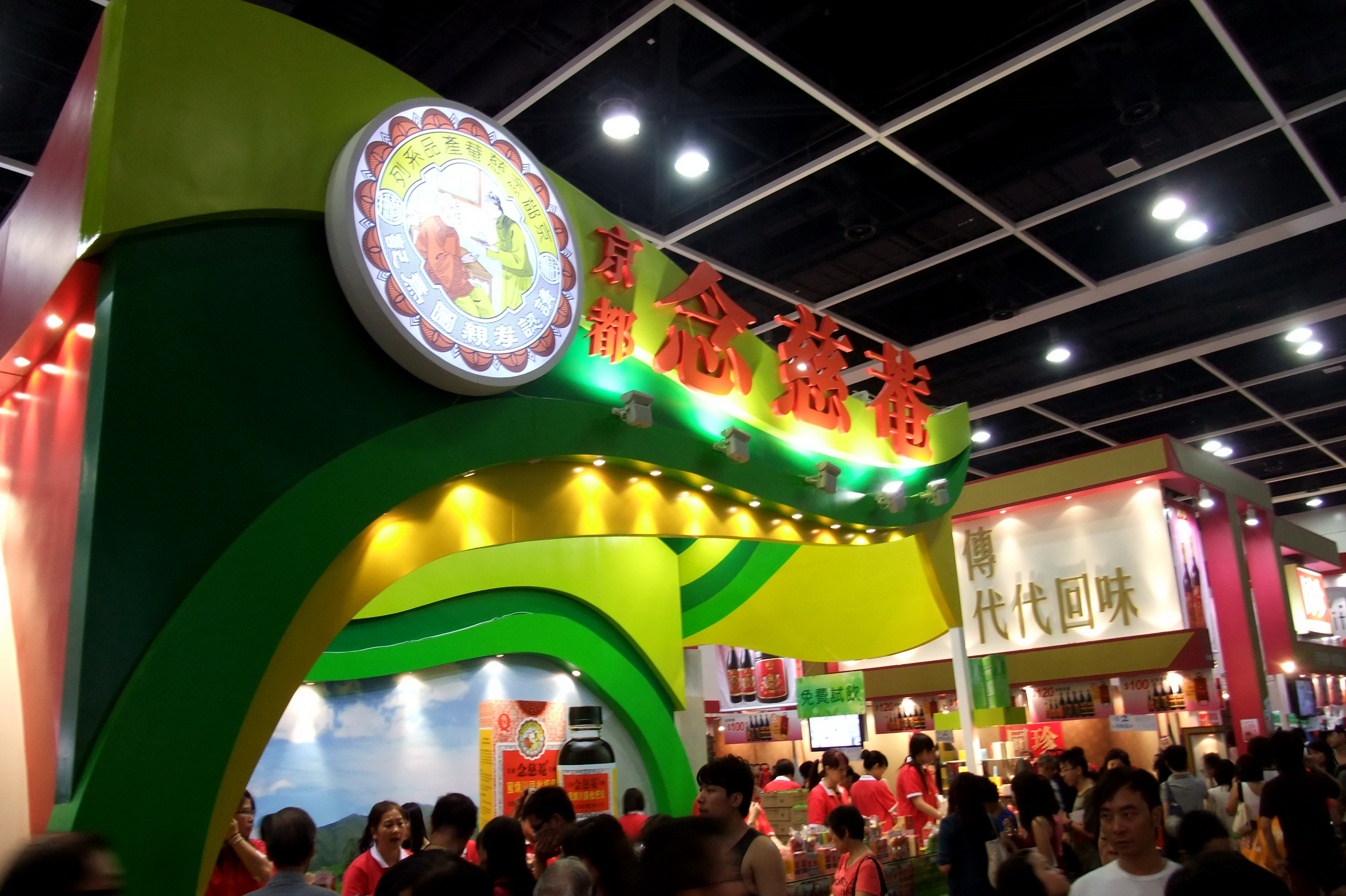 The booth of Nin Jiom Pei Pa Koa at the HKTDC Food Expo 2011